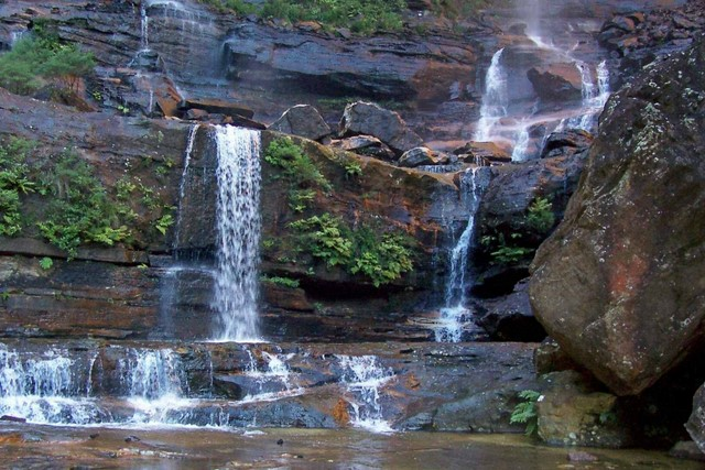 Wentworth Falls, near walking track